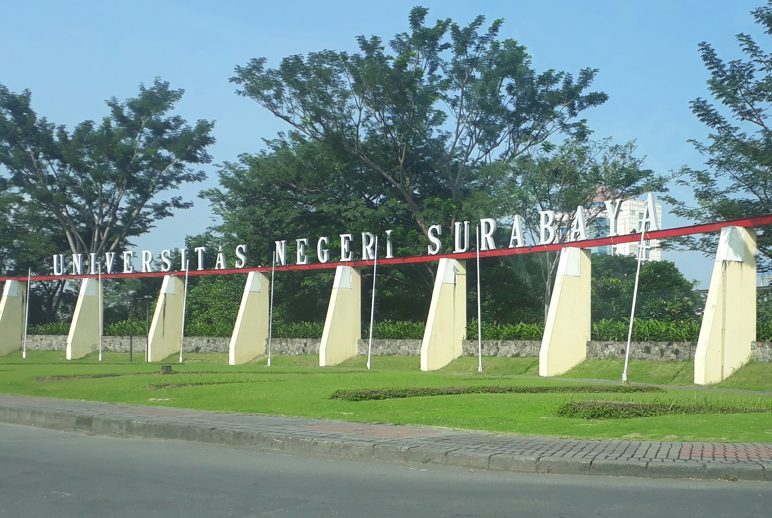 The entrance to the State University of Surabaya Lidah Wetan campus